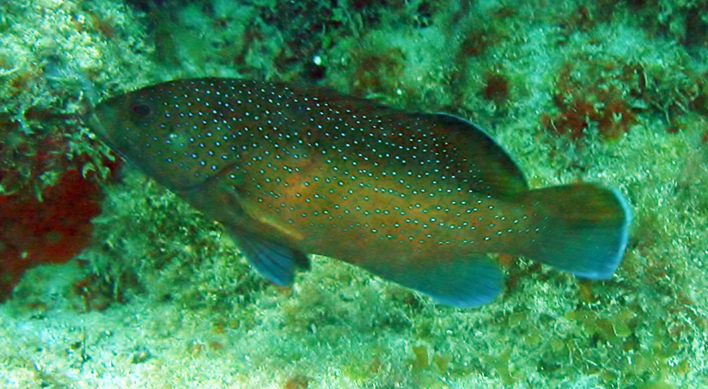 Cephalopholis fulva en St. Croix, islas Vírgenes, 2004